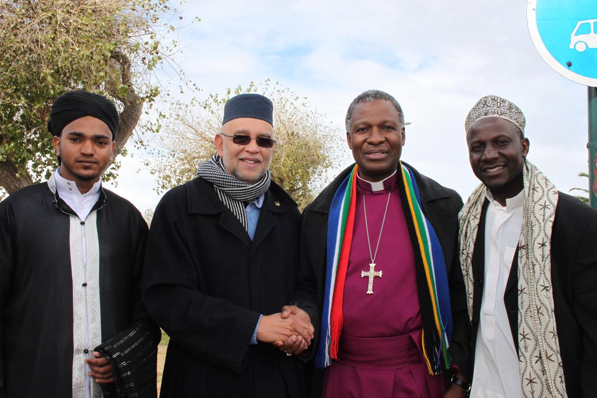 Mandela Day Human Chain - Moulana Sayed Imraan & Sayed Haroon Al Azhari with Anglican Archbishop Thabo Makgoba